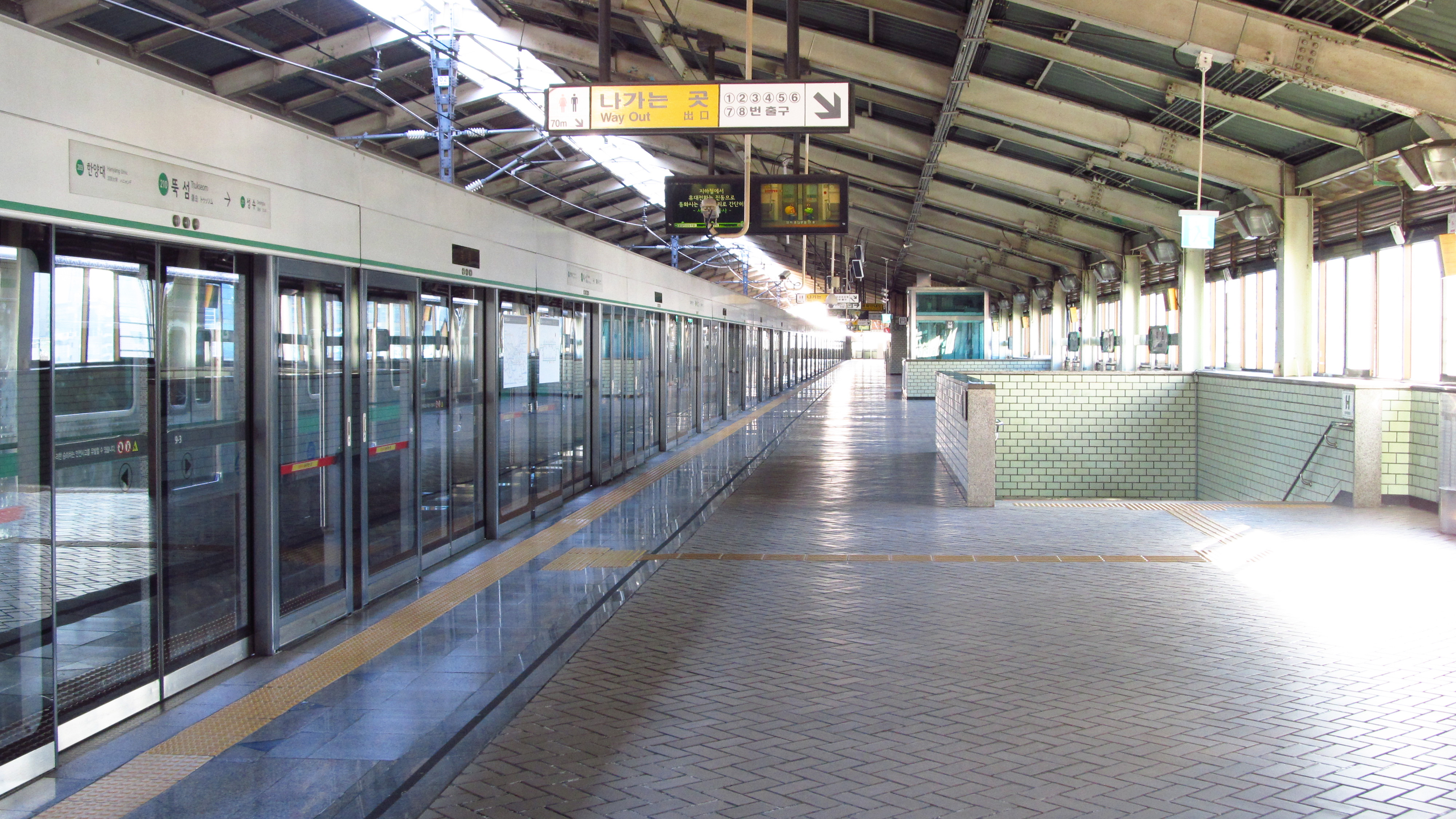 The platform at Ttukseom Station on Seoul Subway Line 2 in Seongdong-gu, Seoul, Republic of Korea(South Korea)